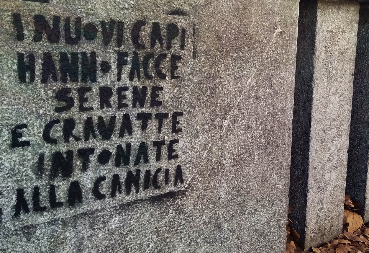 Stencil graffiti with a citation of Le storie di ieri (a song of Francesco De Gregori) in Lungo Dora Firenze (Turin, Italy)